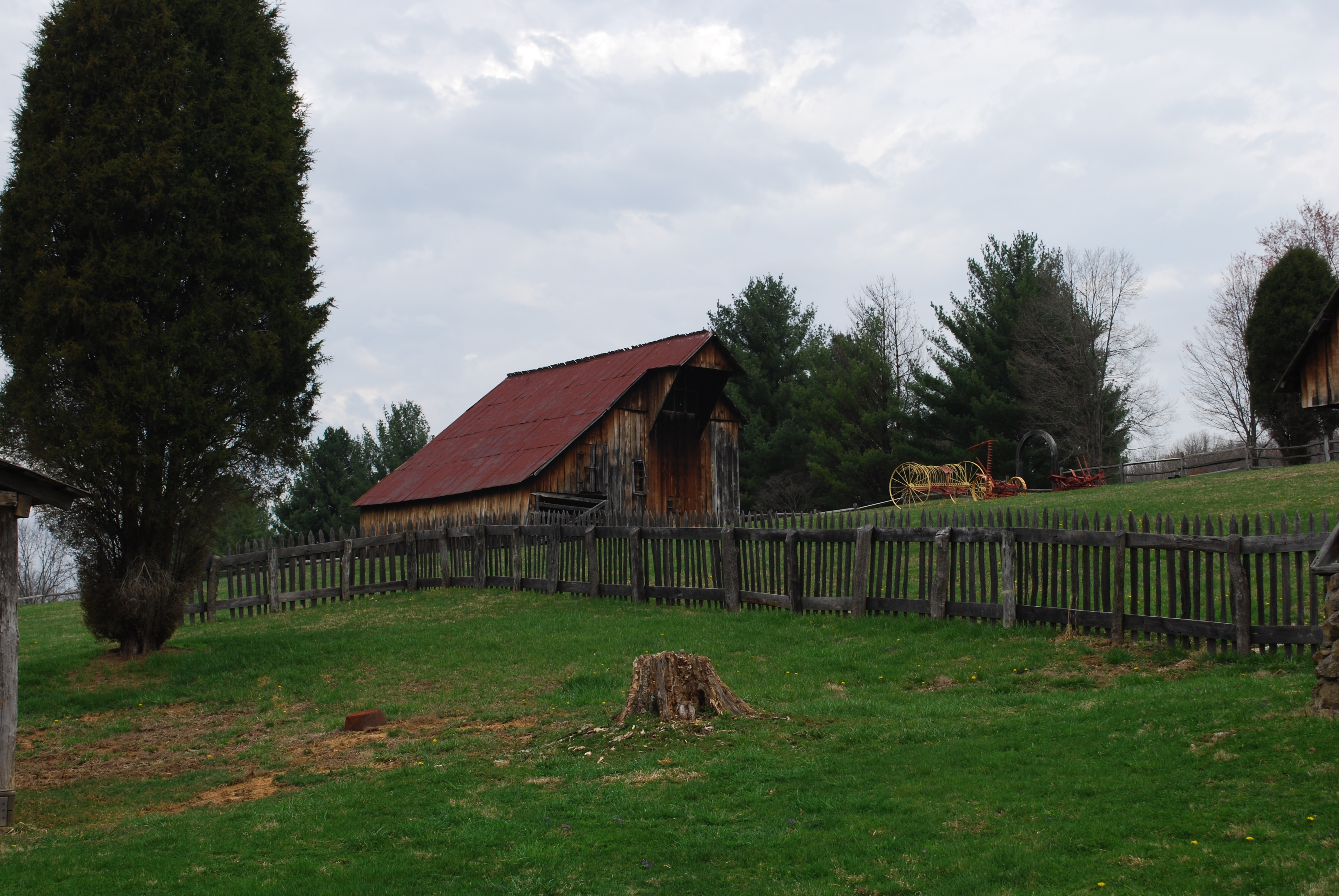 Farm buildings at Watters Smith Memorial State Park near Lost Creek, West Virginia.